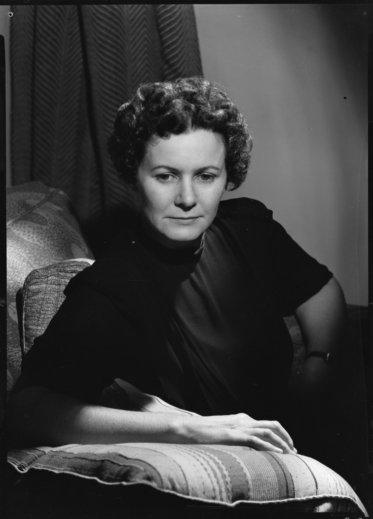 Note: Eleanor Dark (née O'Reilly) (26 August 1901?11 September 1985) was an Australian author whose novels included Prelude to Christopher (1934) and Return to Coolami (1936), both winners of the Australian Literature Society Gold Medal for literature. Reference: Wikipedia Format: Photograph Notes: Find more detailed information about this photograph: .au/item/itemDetailPaged.aspx?itemID=431829 Search for more great images in the State Library's collections: .au/search/SimpleSearch.aspx From the collection of the State Library of New South Wales